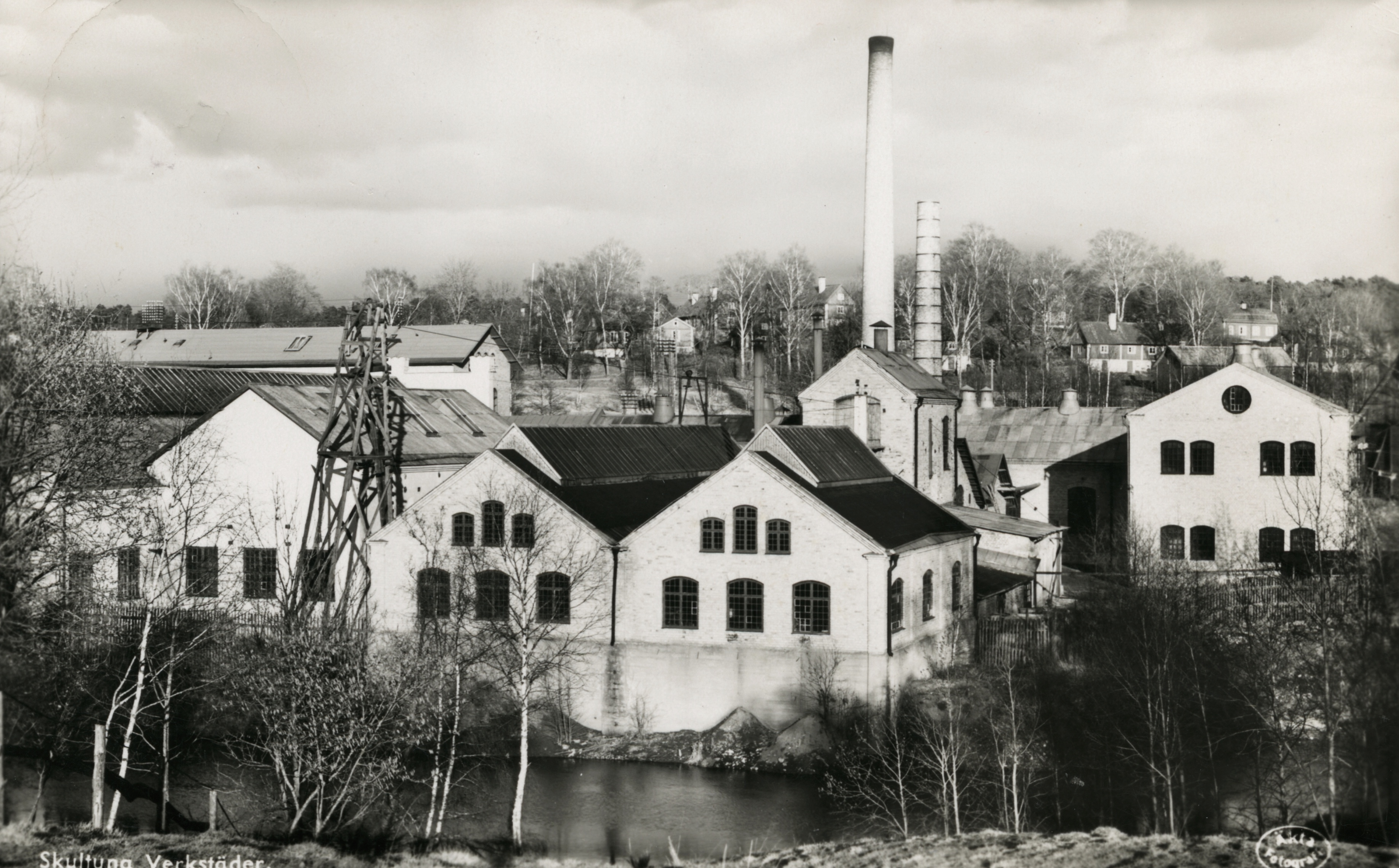 Skultuna Messingsbruk: "Skultuna Brass factory", about 1940